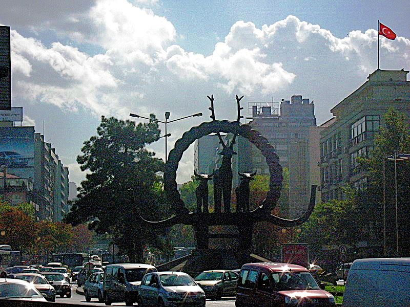 Statue in Ankara as a giant replica of a ceremonial standard (height : 24 cm) in the Museum of Anatolian Civilizations in Ankara